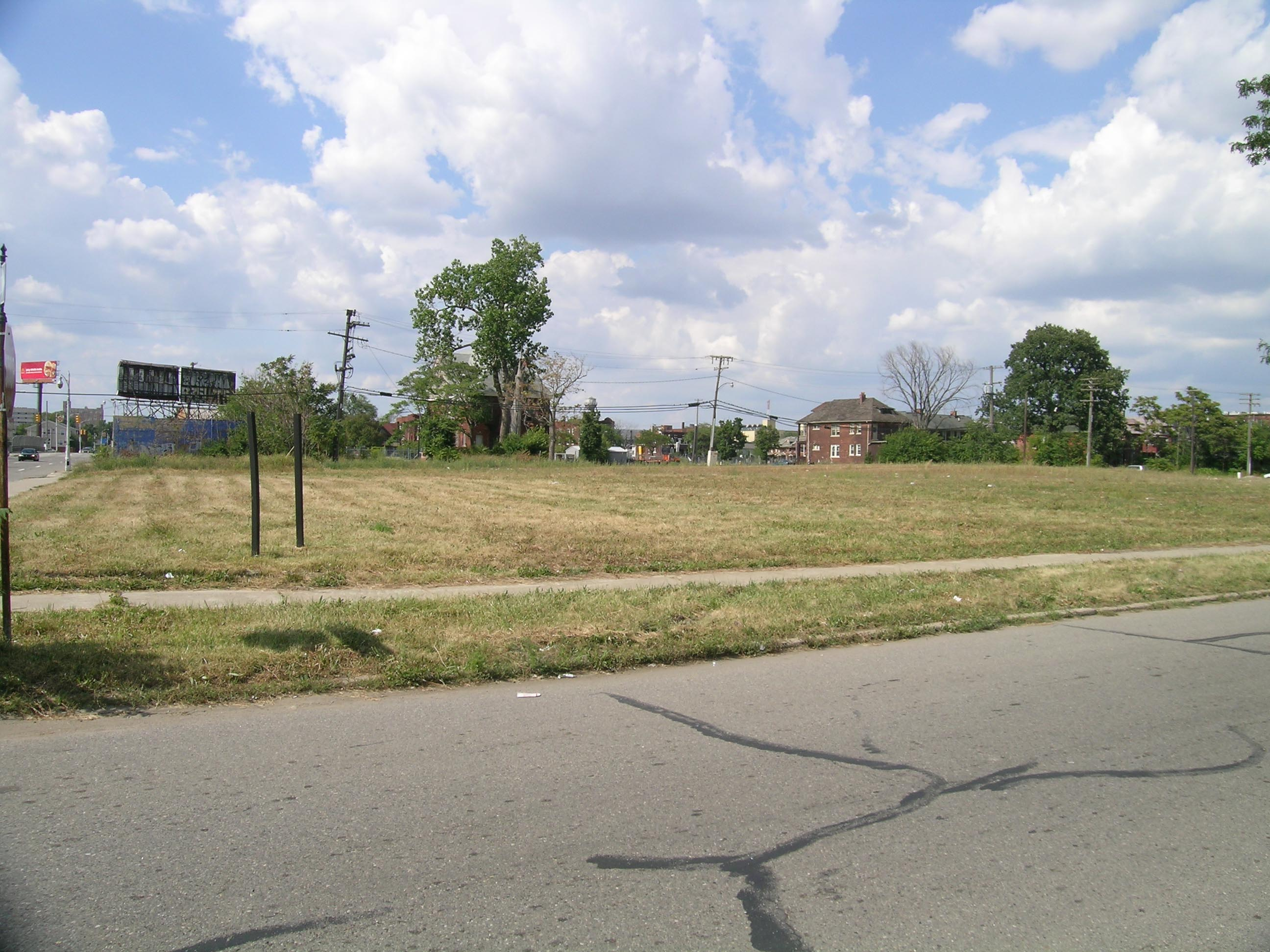 Plot where the Lancaster and Waumbek Apartments once stood in Detroit, Michigan.